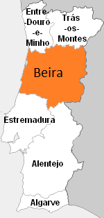 Region of Beira - Until 19th century